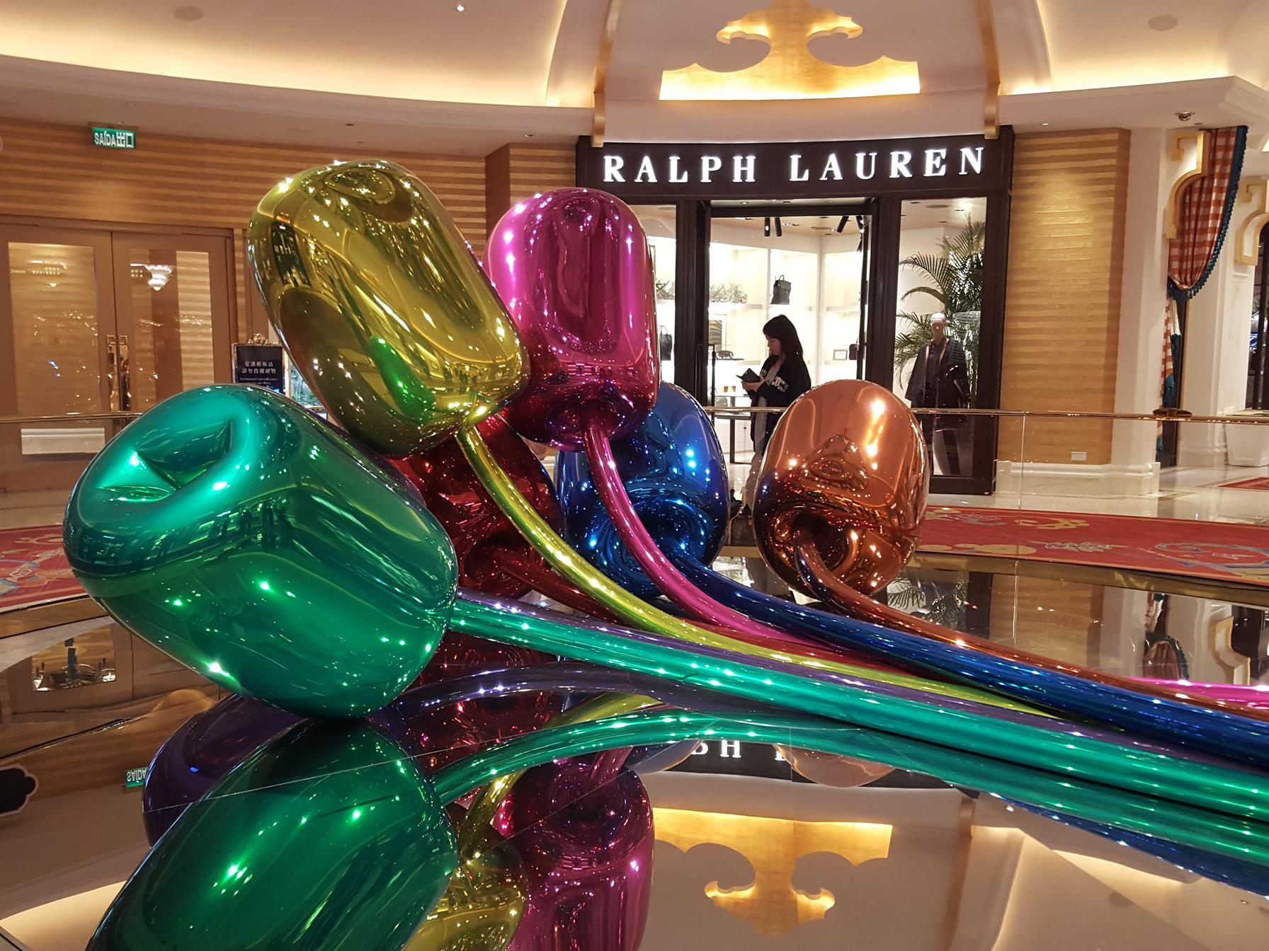 Wynn Palace, Cotai